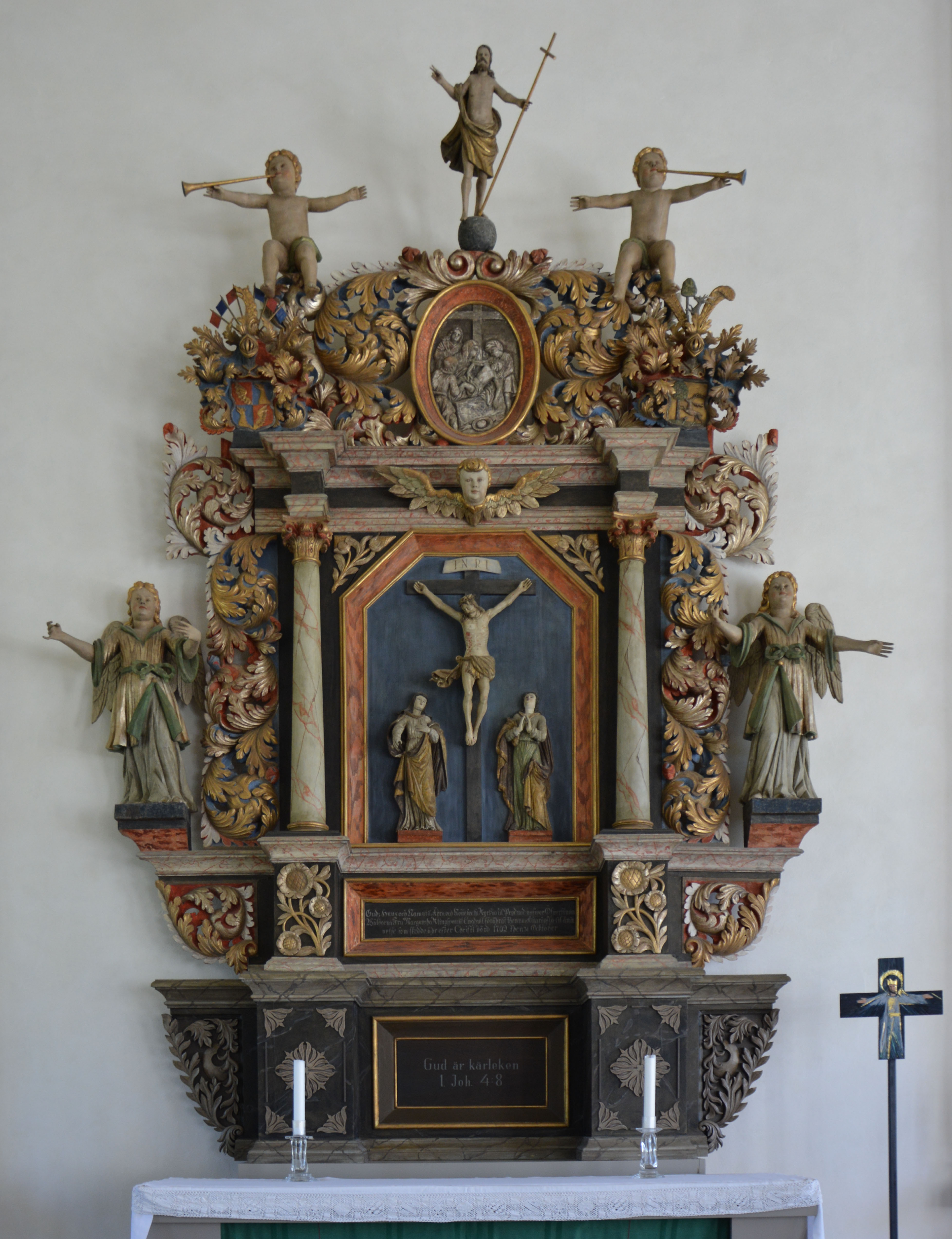 Nottebäcks Church. Reredos executed by the sculptor Torbern Röding 1702.